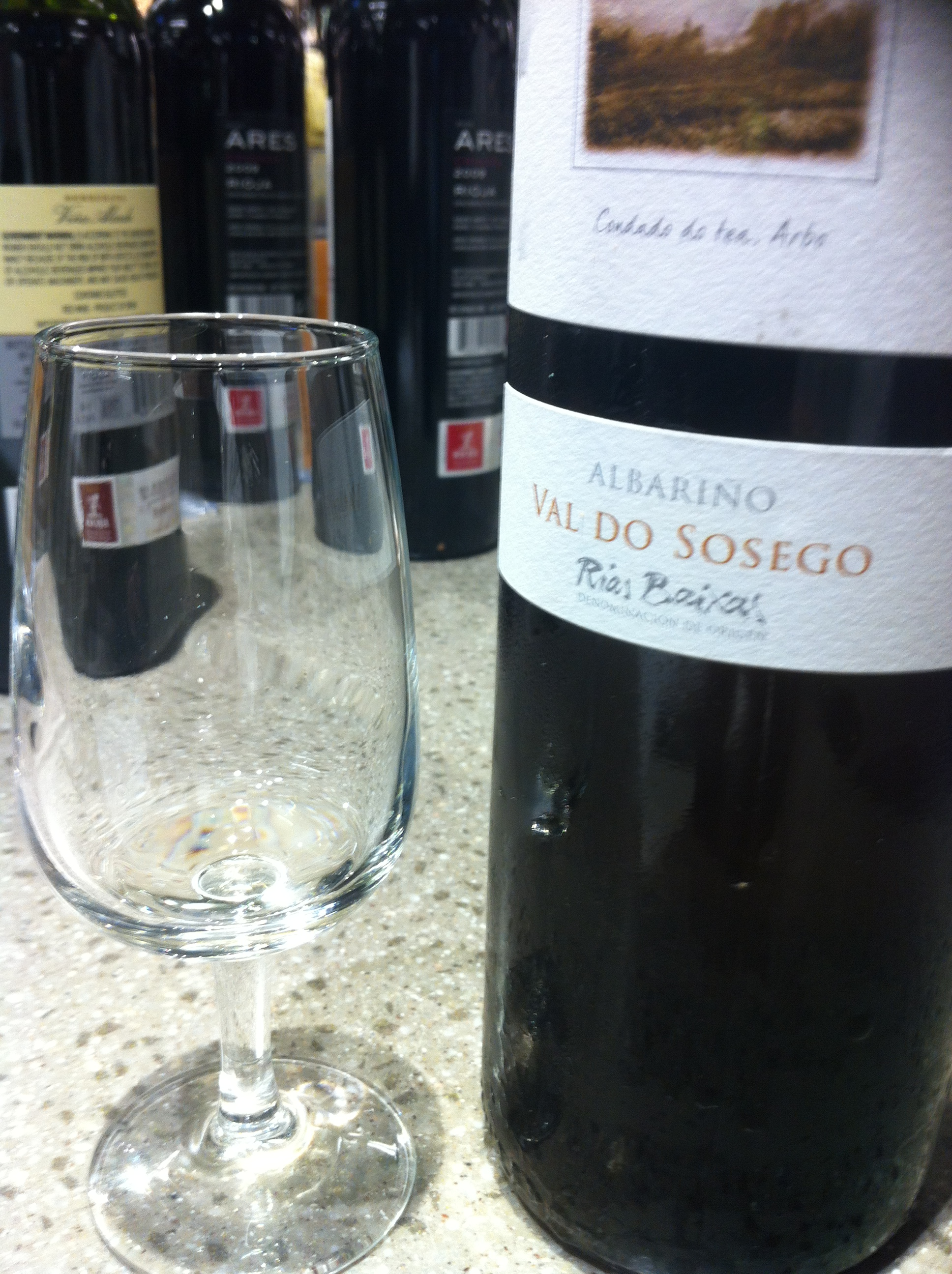 Spanish white wine from the Rias Baixas region made from the Albariño grape.